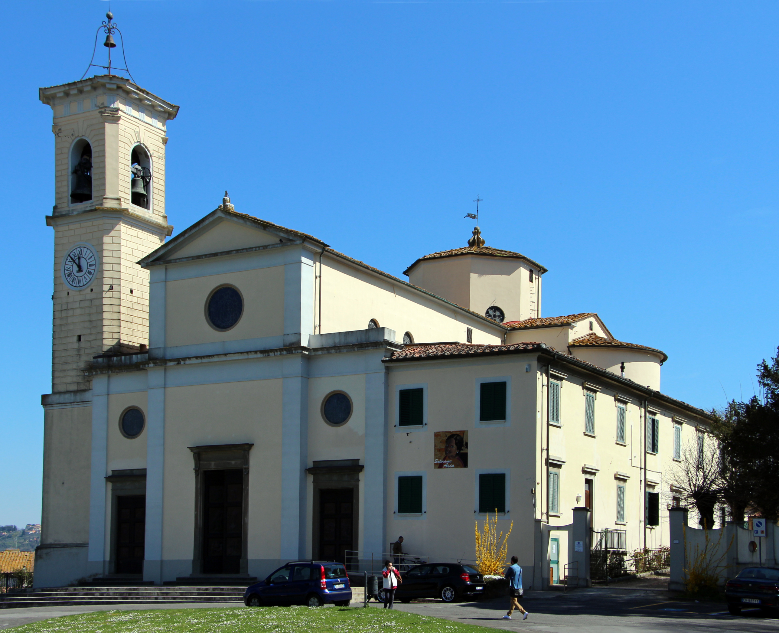 San Bartolomeo (Capannoli)